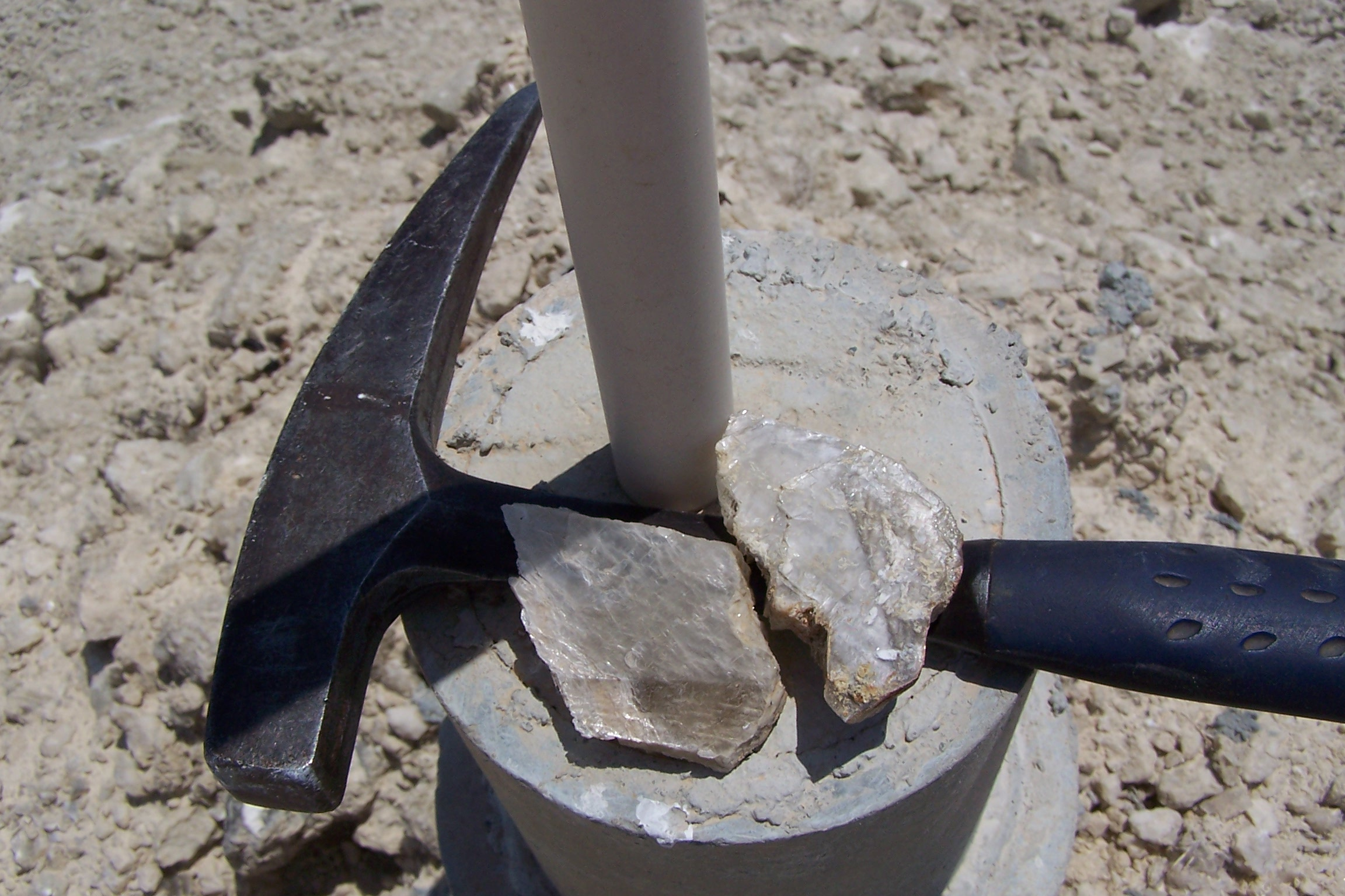 Gypsum extraction at Tokhni.